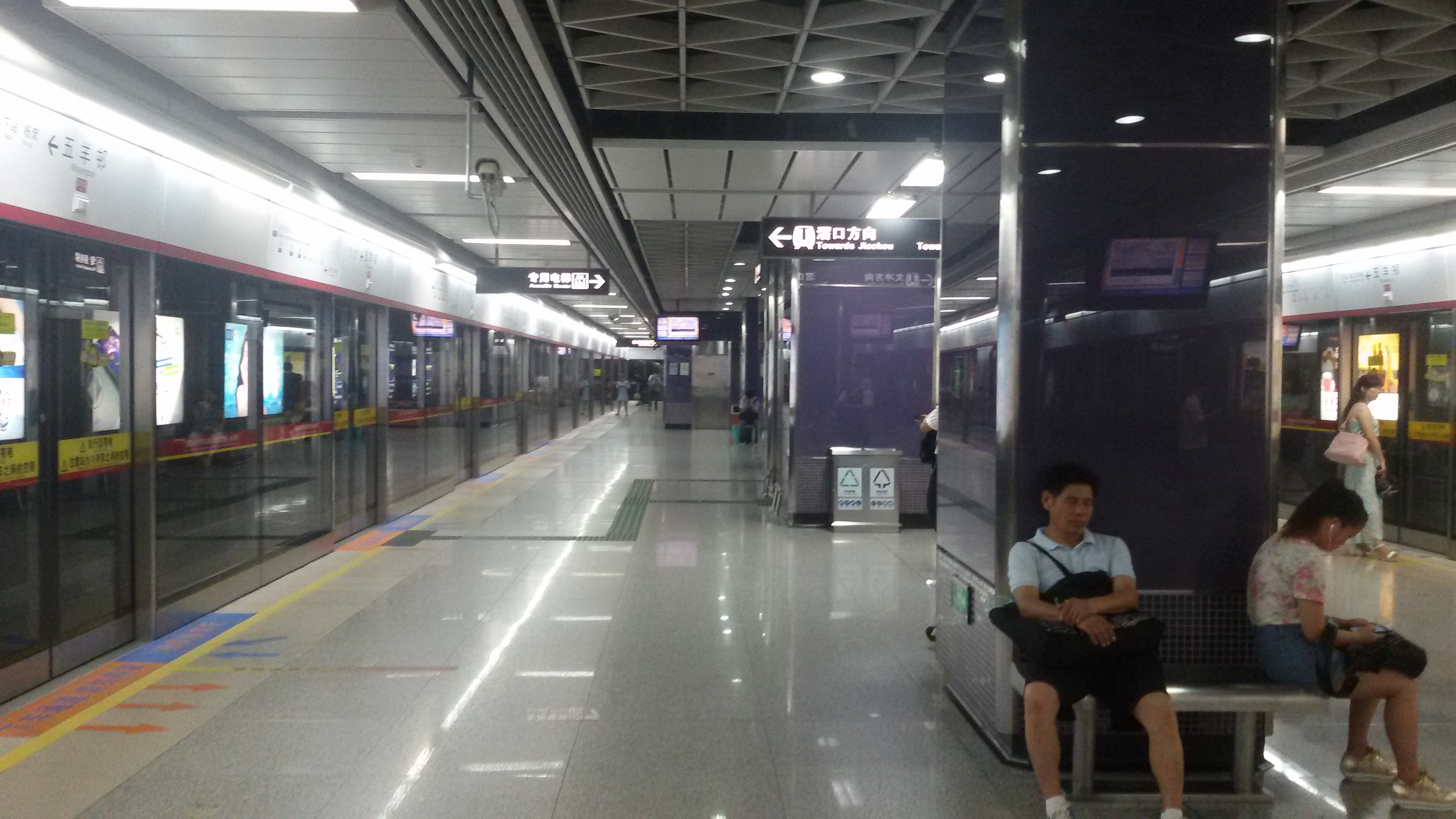 Station Platform for Wuyangcun Station at Line 5 in Guangzhou Metro. 粵語: 廣州地鐵5號綫五羊邨站嘅站台